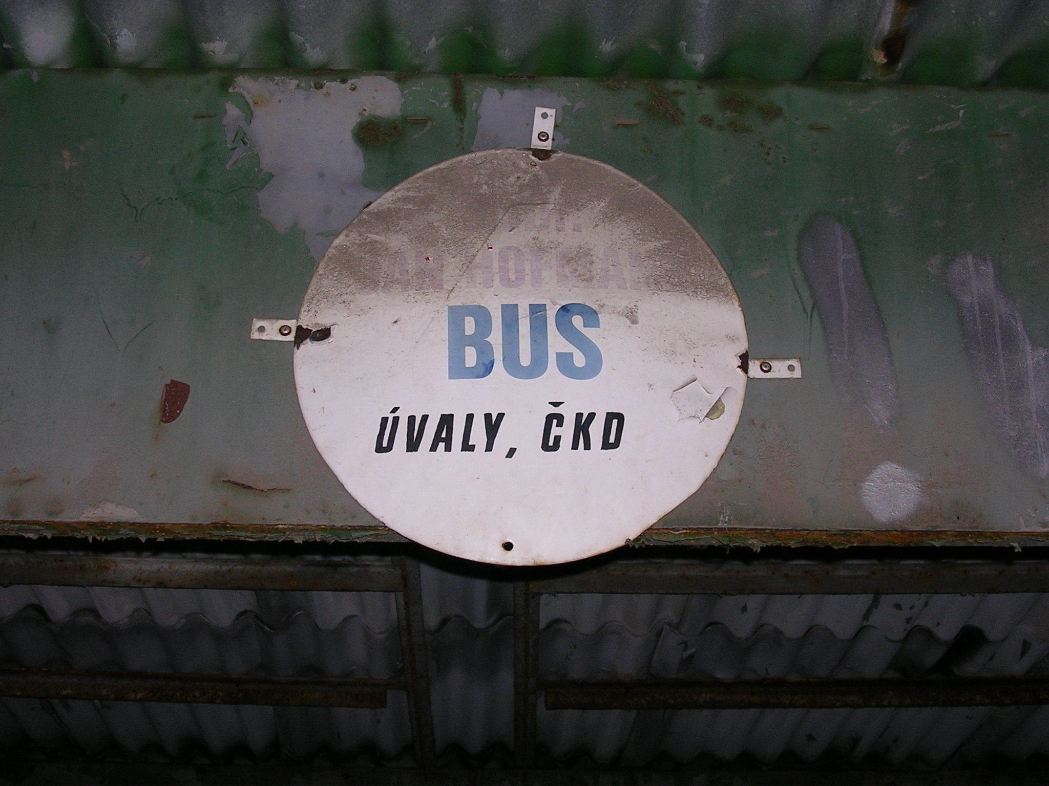 Úvaly, Prague-East District, Central Bohemian Region, the Czech Republic. An old bus stop sign from 1990s.